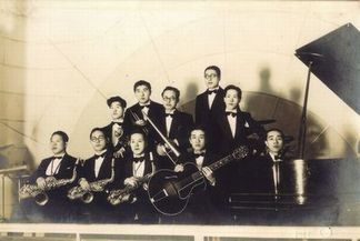 Nakazawa & HisOrchestra Musashino Hall